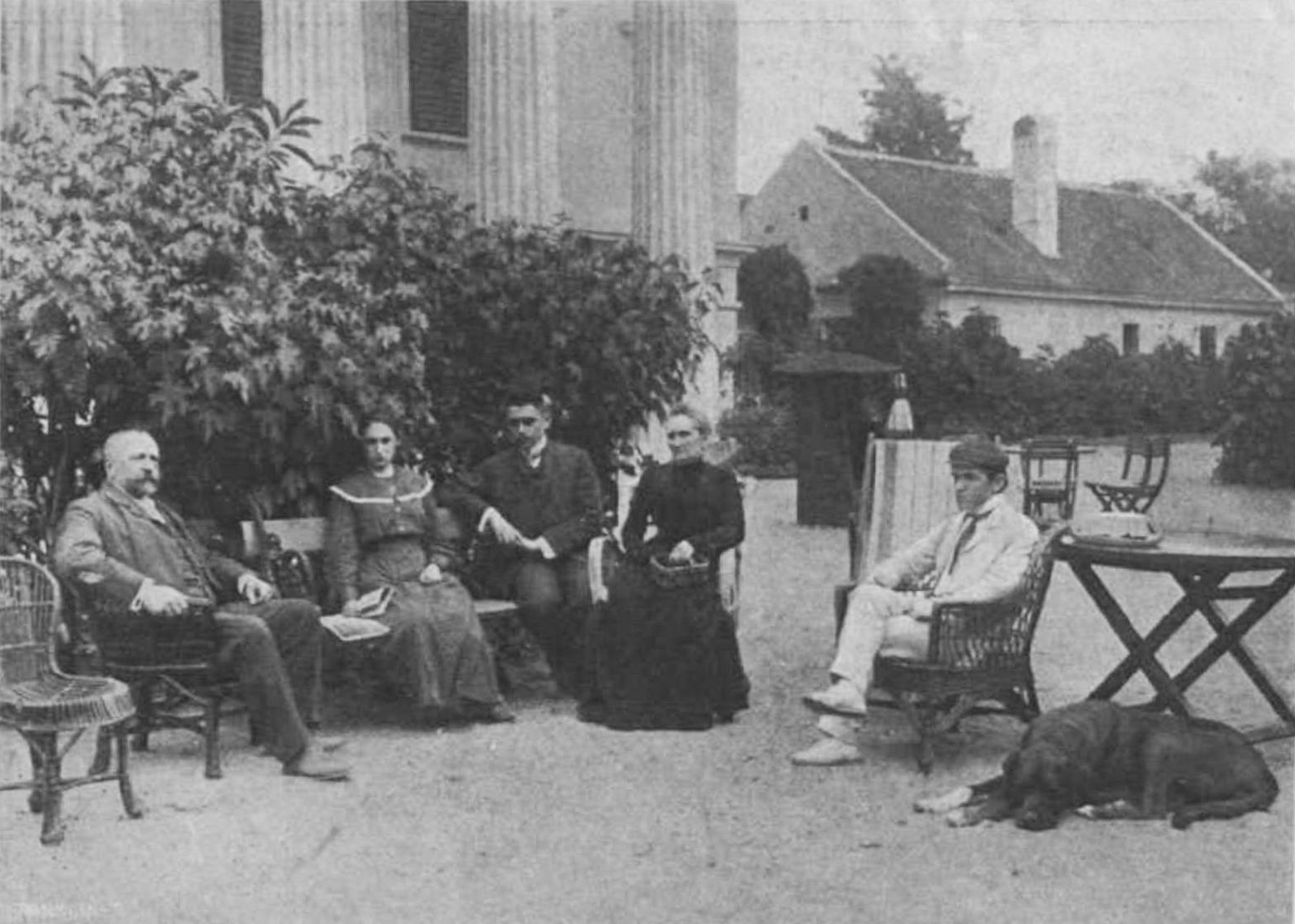 Gyula Justh and his children